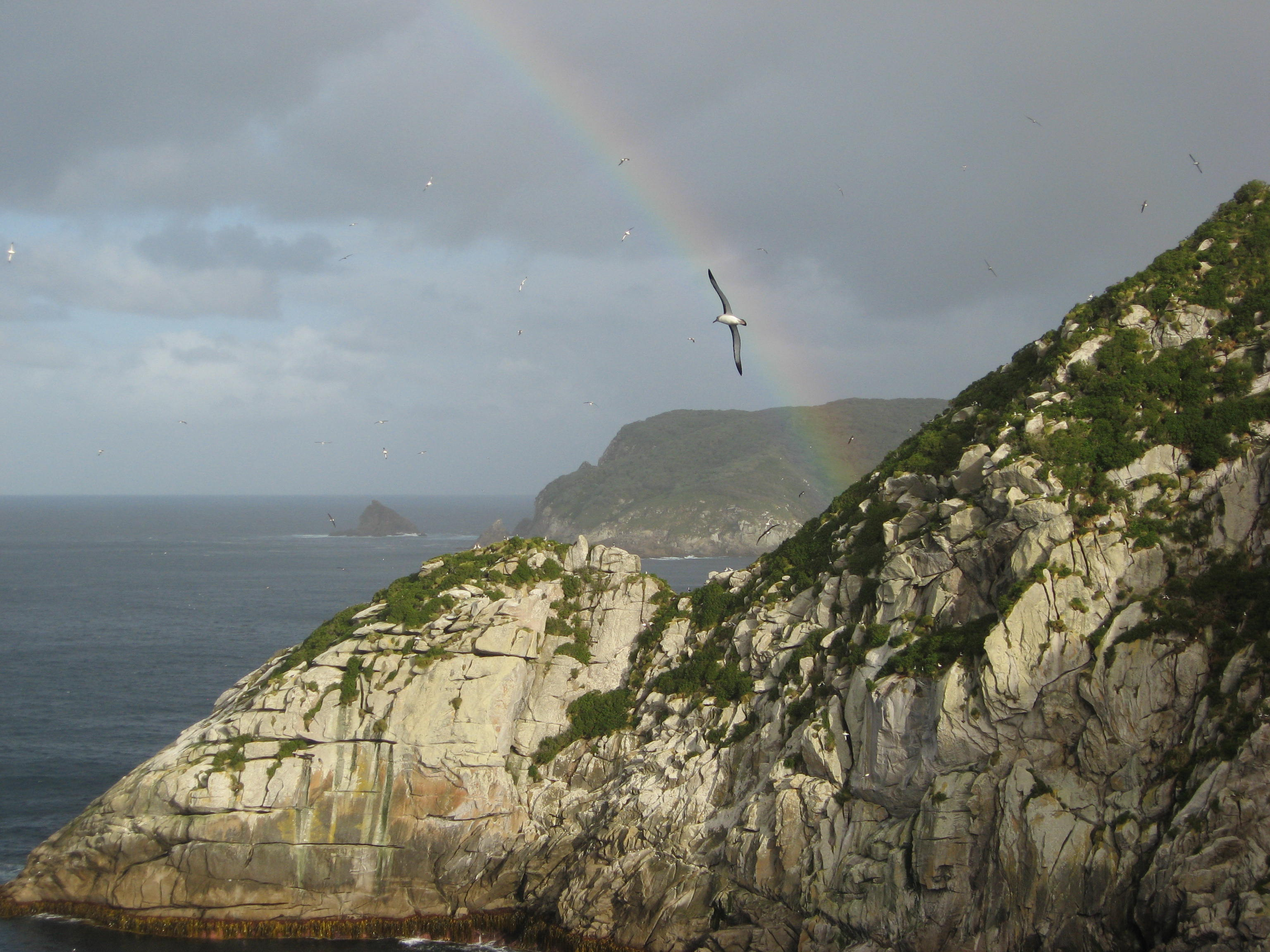 Broughton Island, New Zealand, in the Distance - Behind the rainbow and below the Southern Bullers Albatross. Photographed from Mollymawk Bay, Snares Island - looking South.